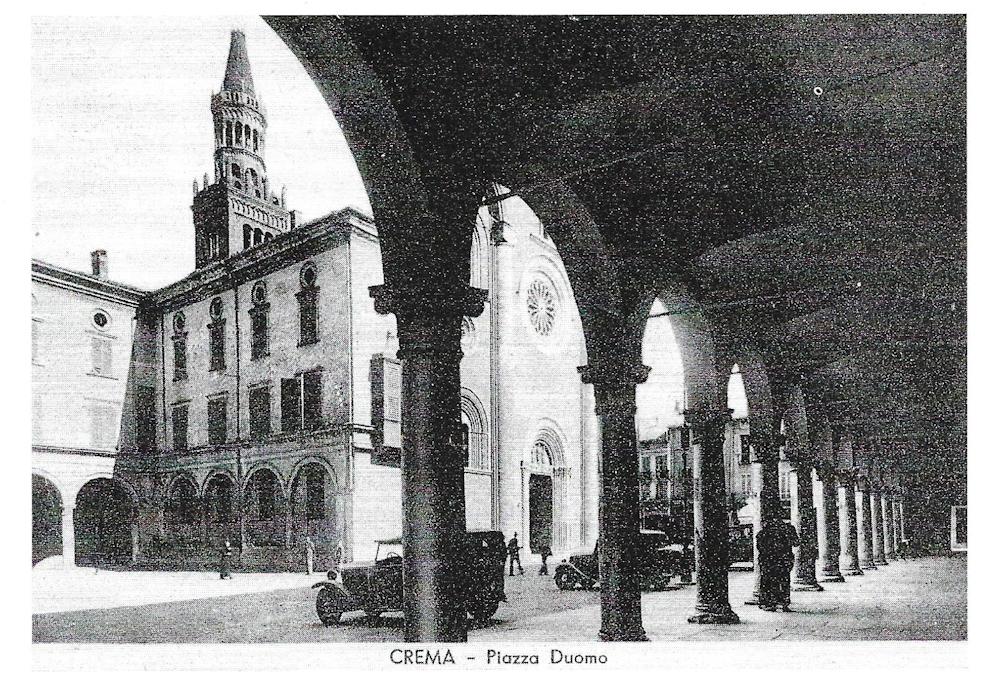 Postcard from the 1930s. On the left you can see the part of the bishop's palace demolished in 1936